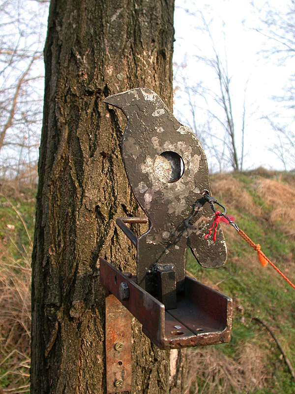 Field target: target on a tree.